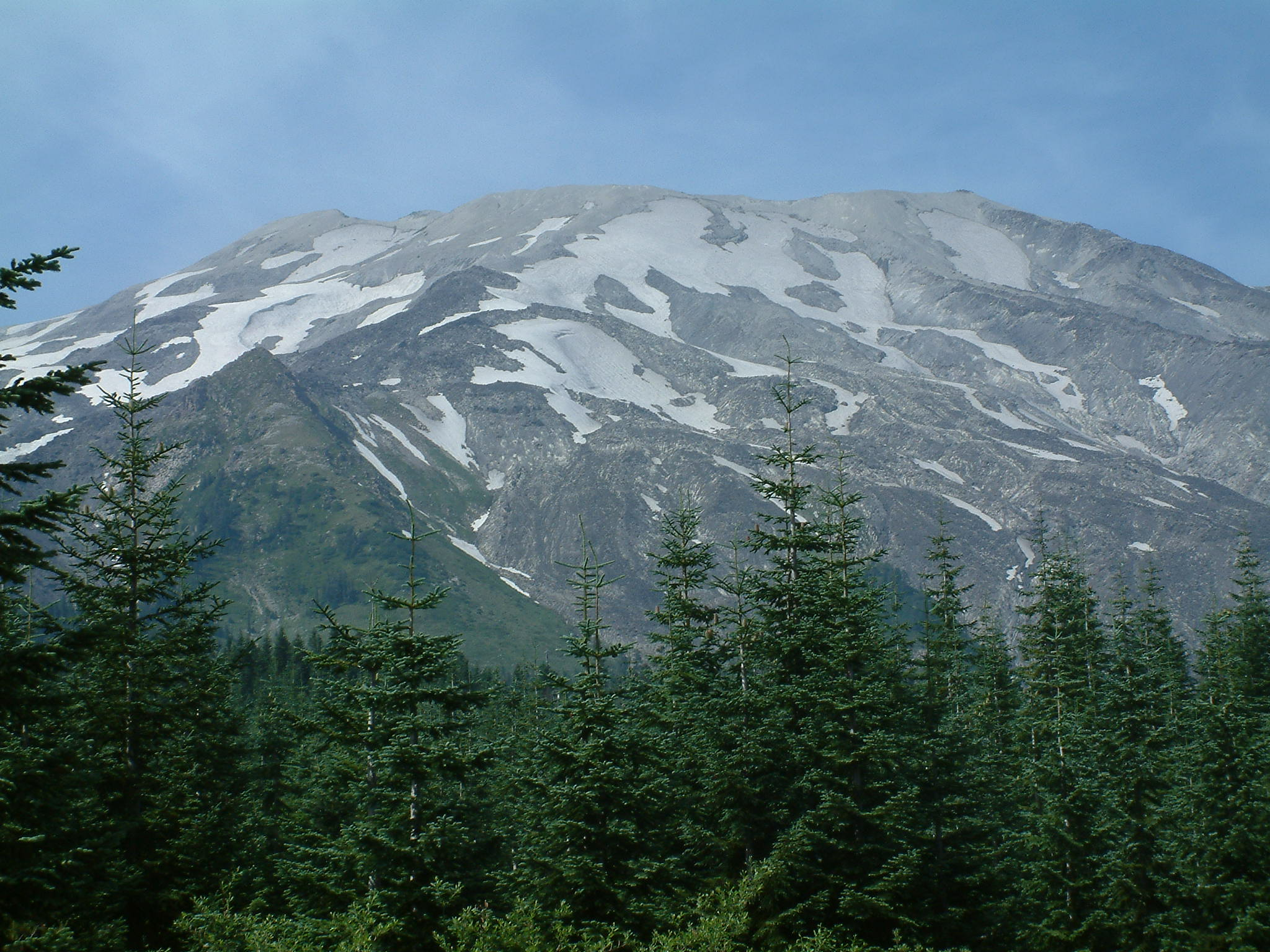 View of Mt. St. Helens from Climbers Biviouc